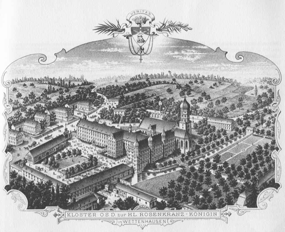 Convent Wettenhausen